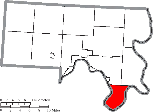 Map of the municipal and township boundaries of Meigs County, Ohio, United States, as of the 2000 census, with the location of Letart Township highlighted. Township borders are shown only in unincorporated areas in order to differentiate incorporated and unincorporated areas more clearly.